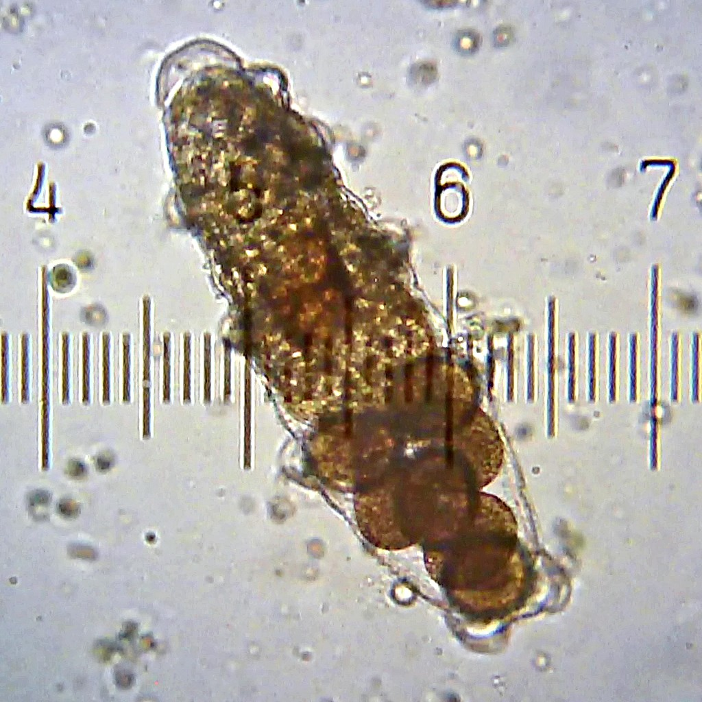 The shed cuticle of a female Tardigrade or “water bear” containing eggs. This was taken using the 10× objective and 15× eyepiece on my microscope. The numbered scale is built into my 15× eyepiece, and when used with the 10× objective, the numbered ticks are 122 microns apart. I learned something new today. I saw this in my microscope, and wondered. I saw several other live water bears, but this was dead and motionless. Looking up the Wikipedia article on Tardigrade, I learned that the female lays her eggs inside her cuticle, just before she sheds it. So obviously, that's what I was seeing here—the shed cuticle of a female water bear, with eggs that she left inside of it.